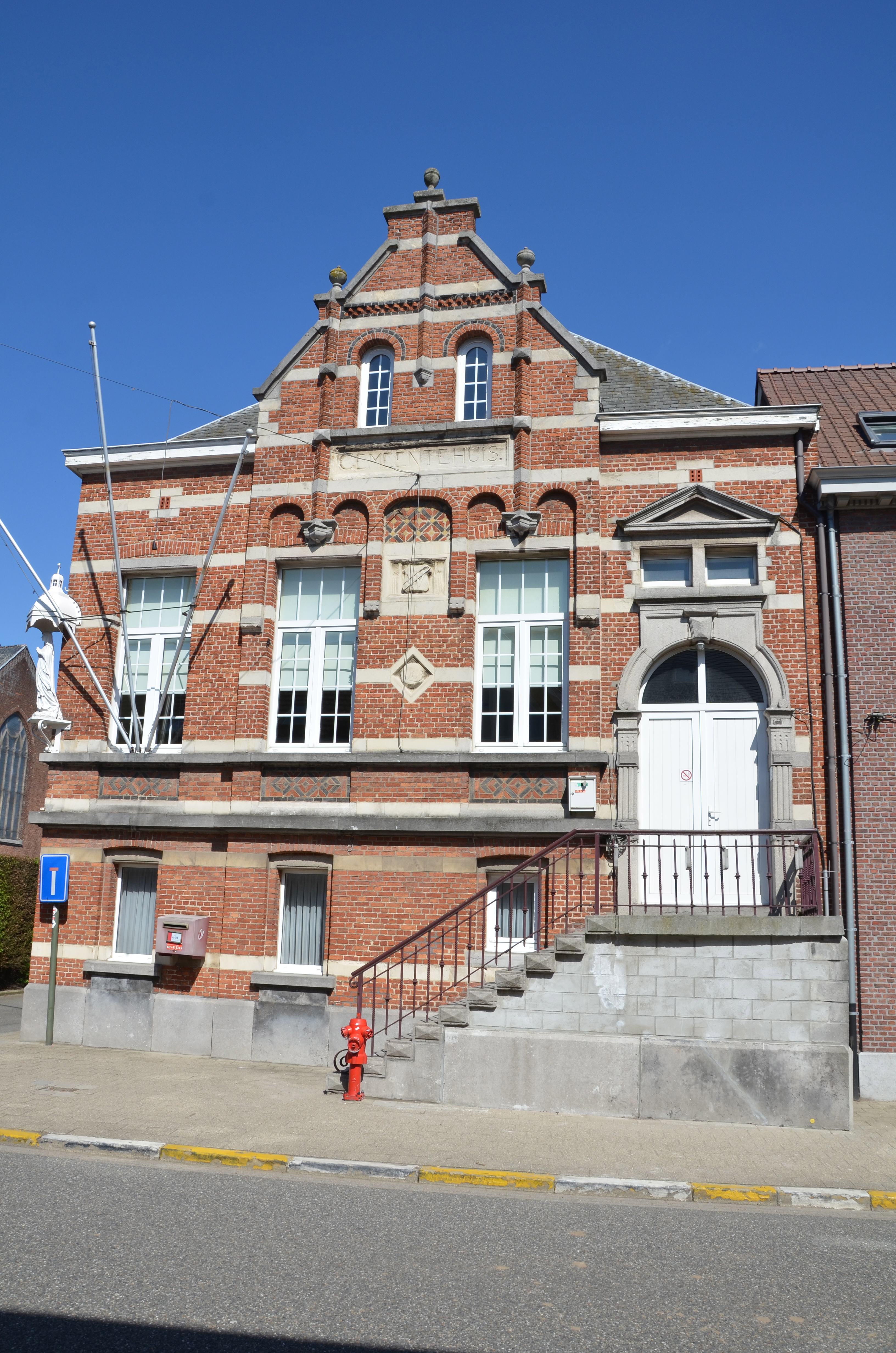 Former Townhall Waarloos